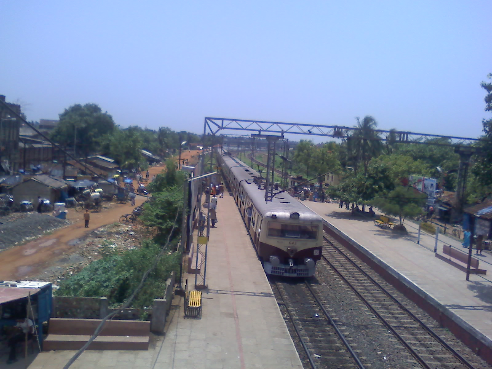 This picture is a part of ramrajatala railway station